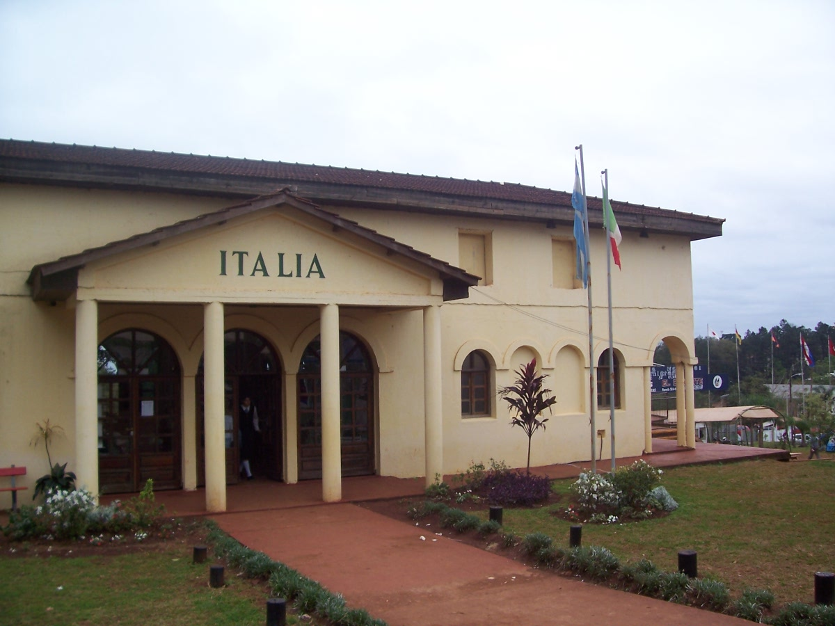 Picture of the Italian House, in the Park of the Nations, within the framework of XXVI the National Immigrant's Festival, in Oberá, Misiones, Argentina.